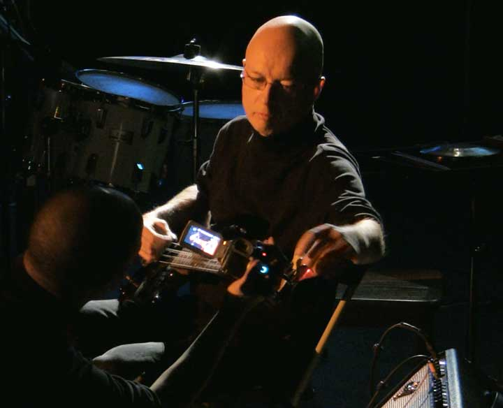 Virgil Moorefield playing the guitar at one of his preformances